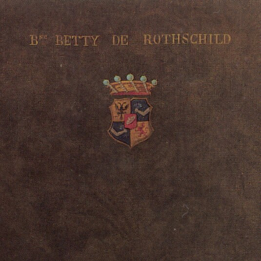 Detail